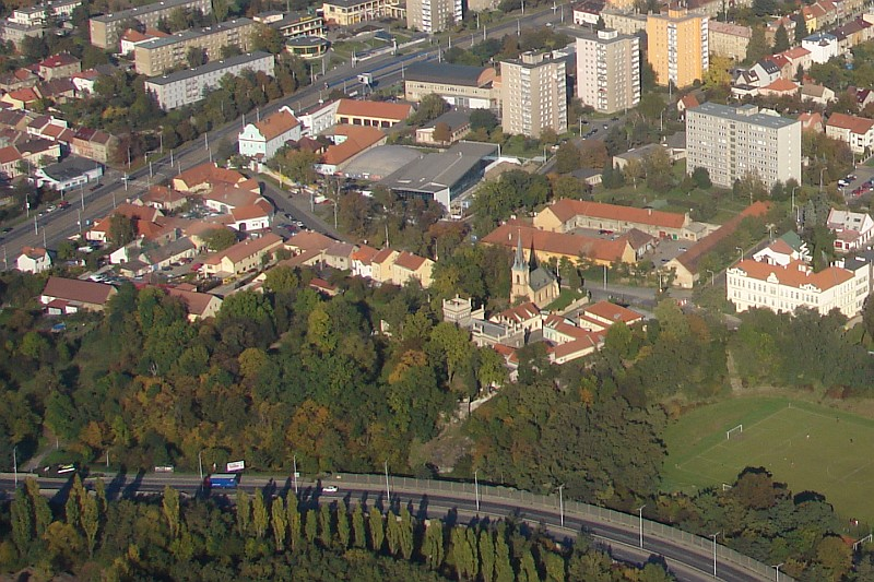 Hloubětín, former centre of village, church vicinity.